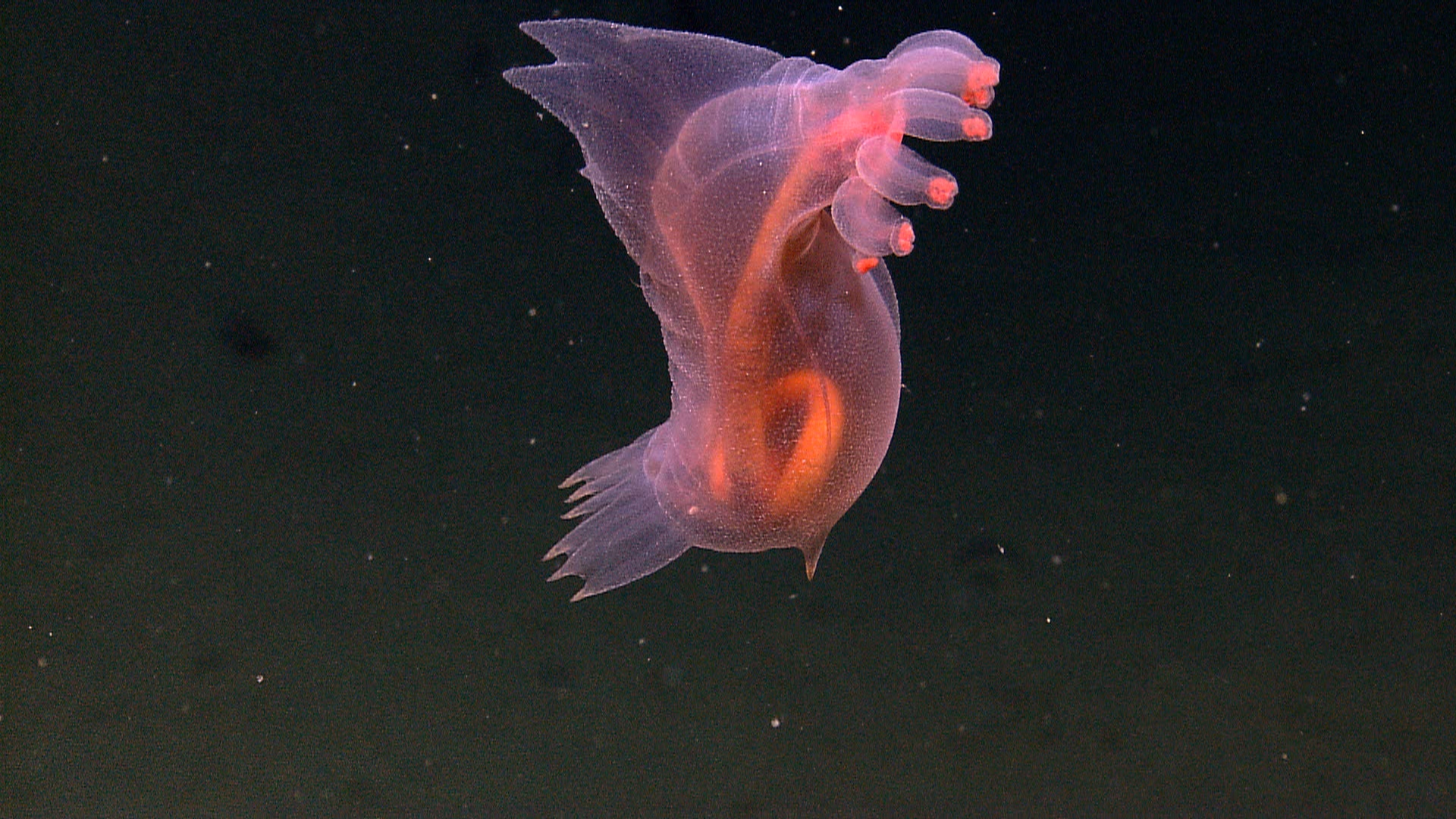 A swimming pinkish orange translucent holothurian (Elasipodida) with intestinal tract visible. Material in gut is similar to seafloor dung piles seen widely over world ocean sea floor. Image ID: expl5475, Voyage To Inner Space - Exploring the Seas With NOAA Collect. Photo Date: 2010 July 27. Credit: NOAA Okeanos Explorer Program, INDEX-SATAL 2010.